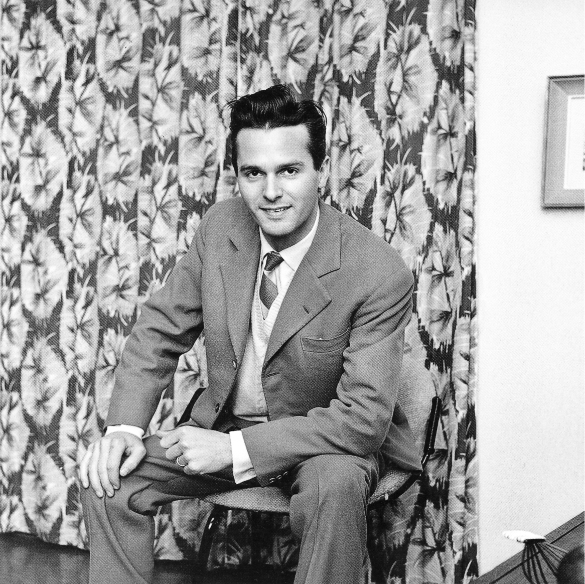 Photograph of the Italian singer Umberto Marcato visiting the home of Alvar Kovanen in Helsinki, Finland.